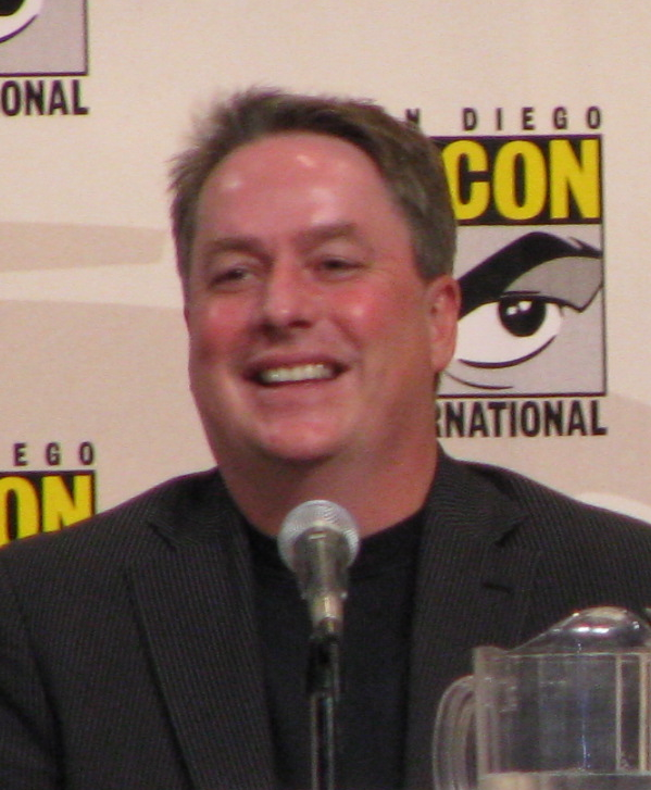 Brad Wright at Comic Con 2008.